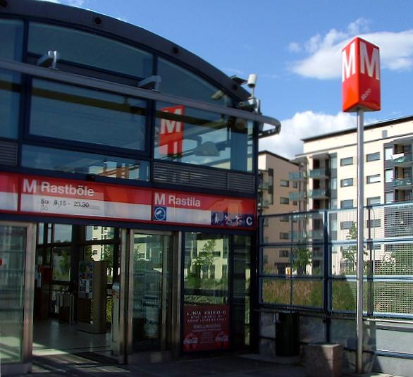 one of the two entrances to the Rastila station in Eastern Helsinki. (Note that the file name is misspelled!)